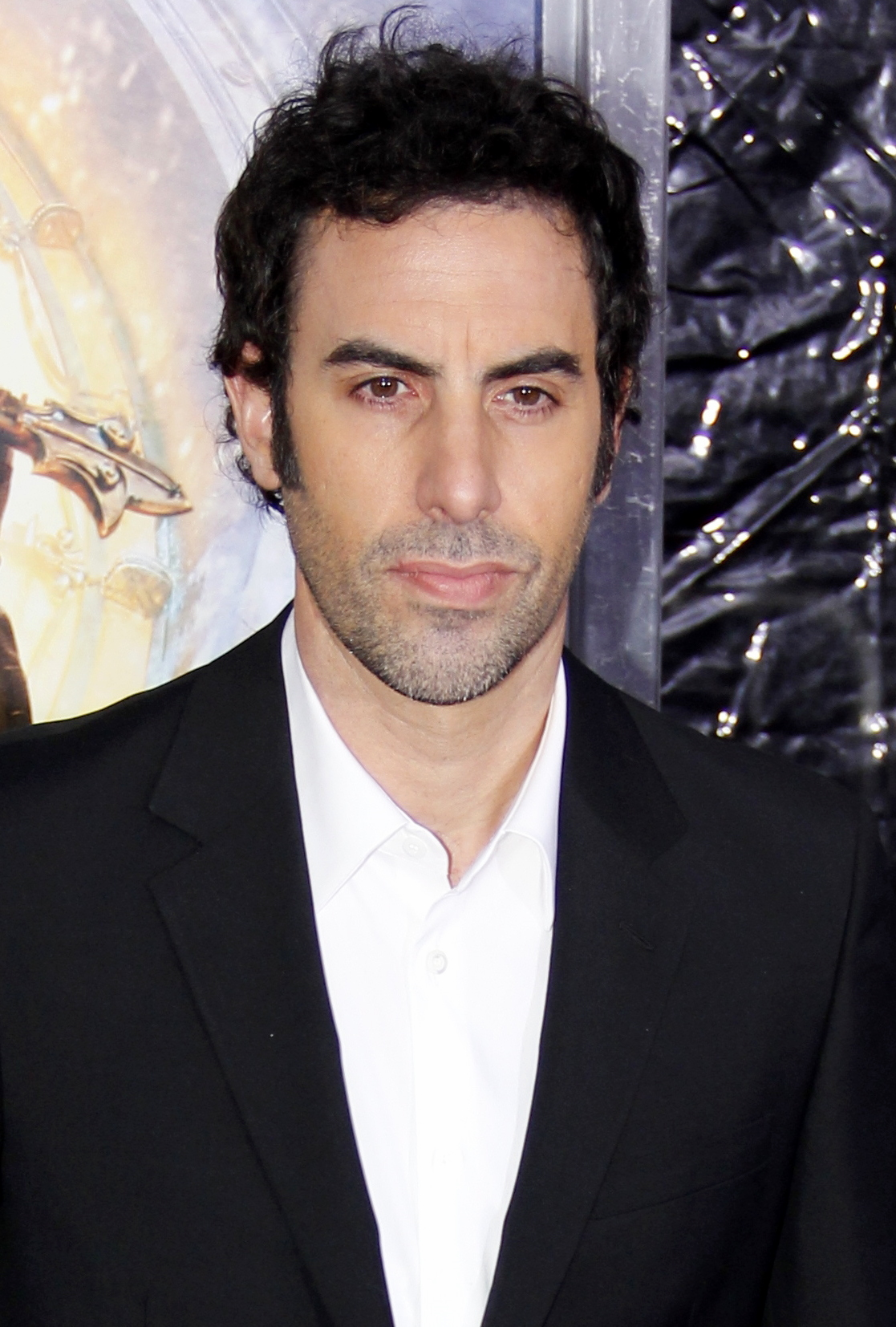 Sacha Baron Cohen at the Hugo Premiere, New York City 2011.